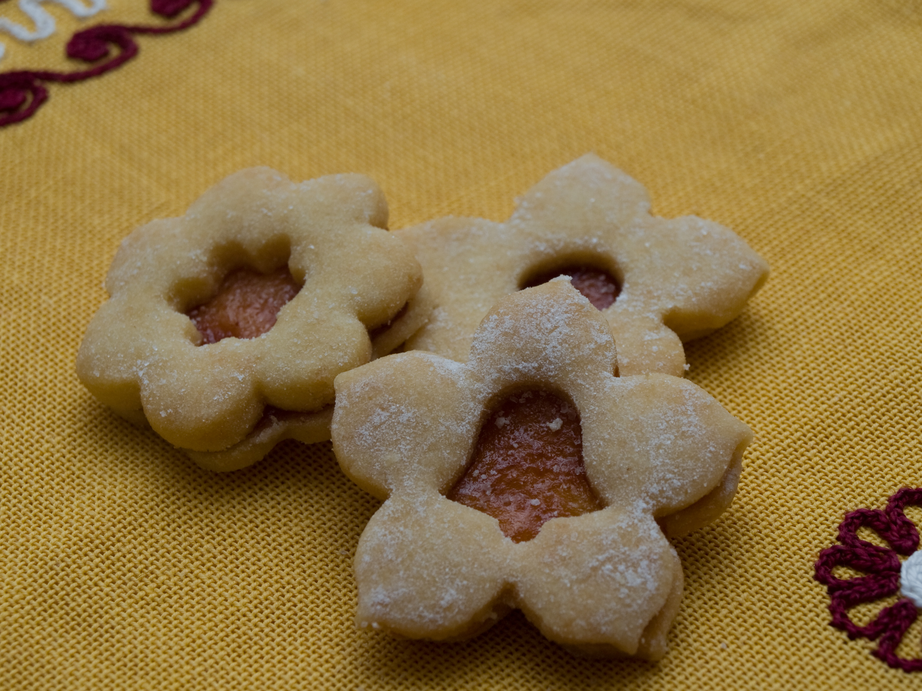 Christmas sweets, tradicional Czech christmas